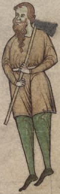 Illustration of Diarmait Mac Murchada, King of Leinster from folio 56r of National Library of Ireland MS 700 (Expugnatio Hibernica). The manuscript dates to about 1200.